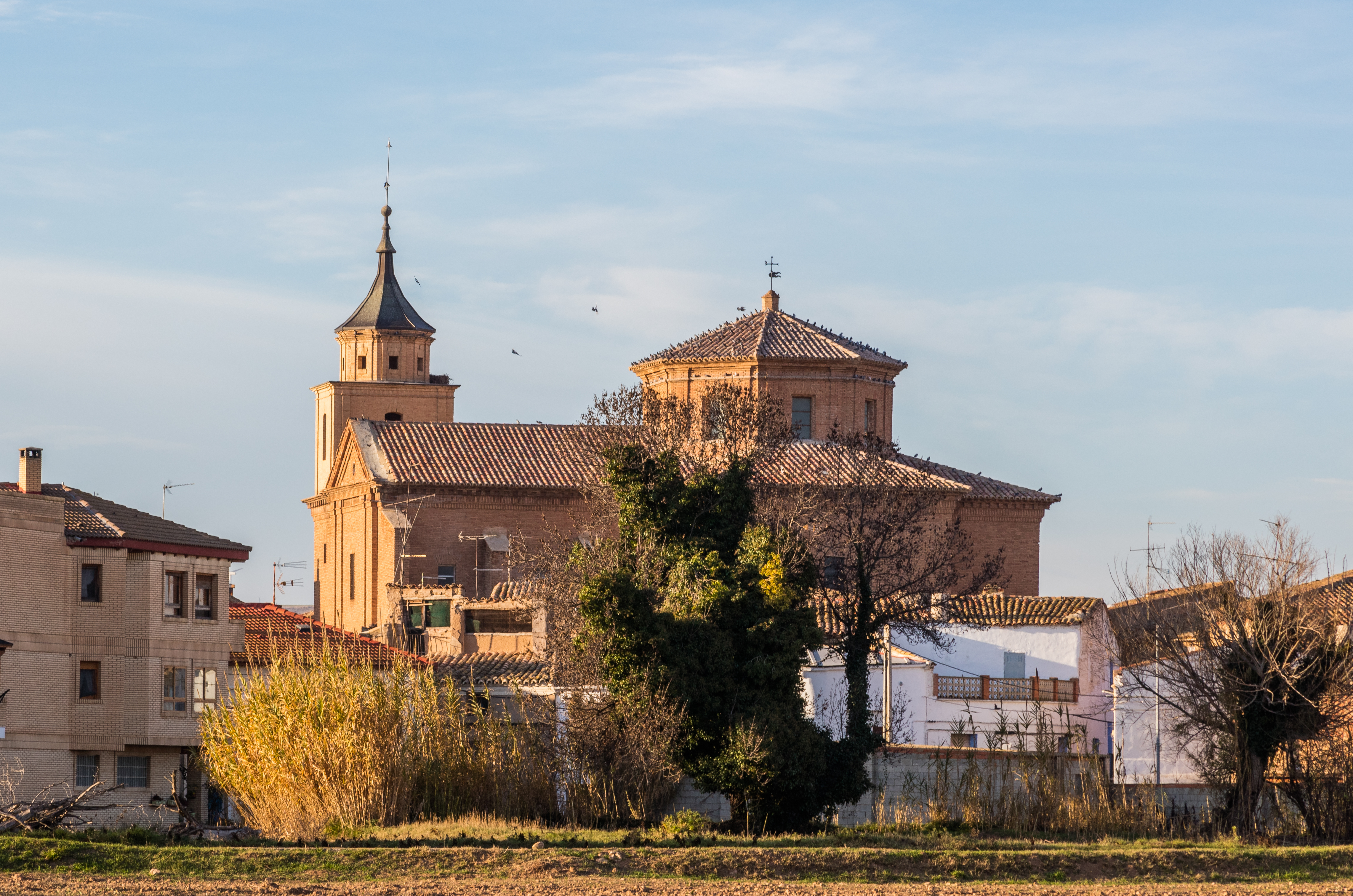 Plasencia de Jalón, Zaragoza, Spain